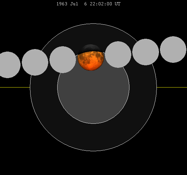 July 1963 lunar eclipse chart of moon's path through the earth's shadow. thumb